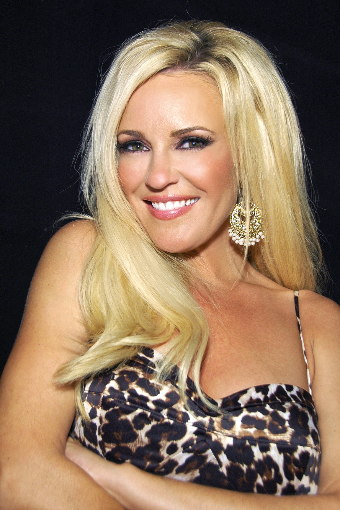 Bridget Marquardt, Hollywood, CA on September 7, 2011 - Photo by Glenn Francis of